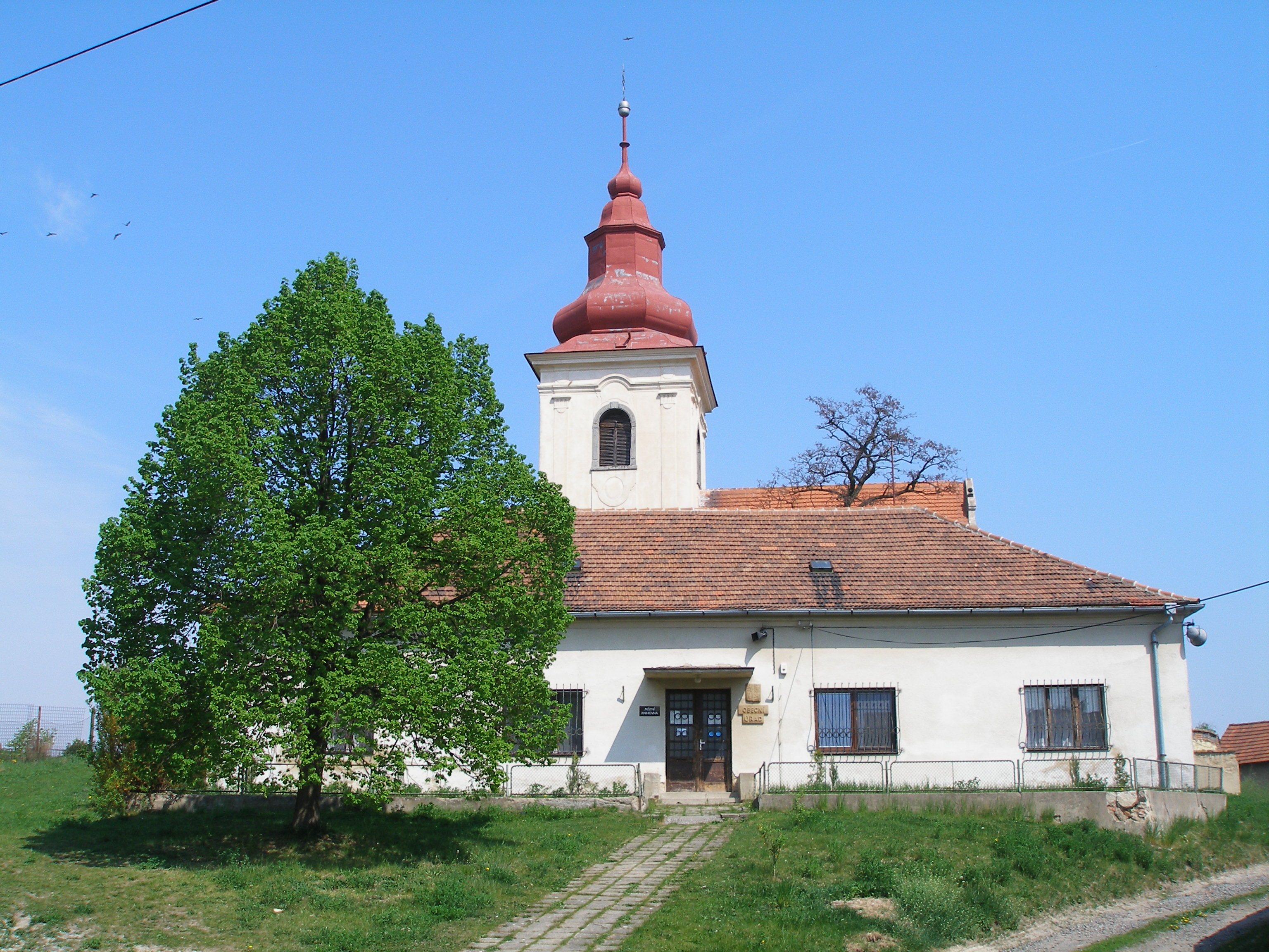 The church and the municipal office in the Kostomlaty pod Řípem (local authority south of the church).